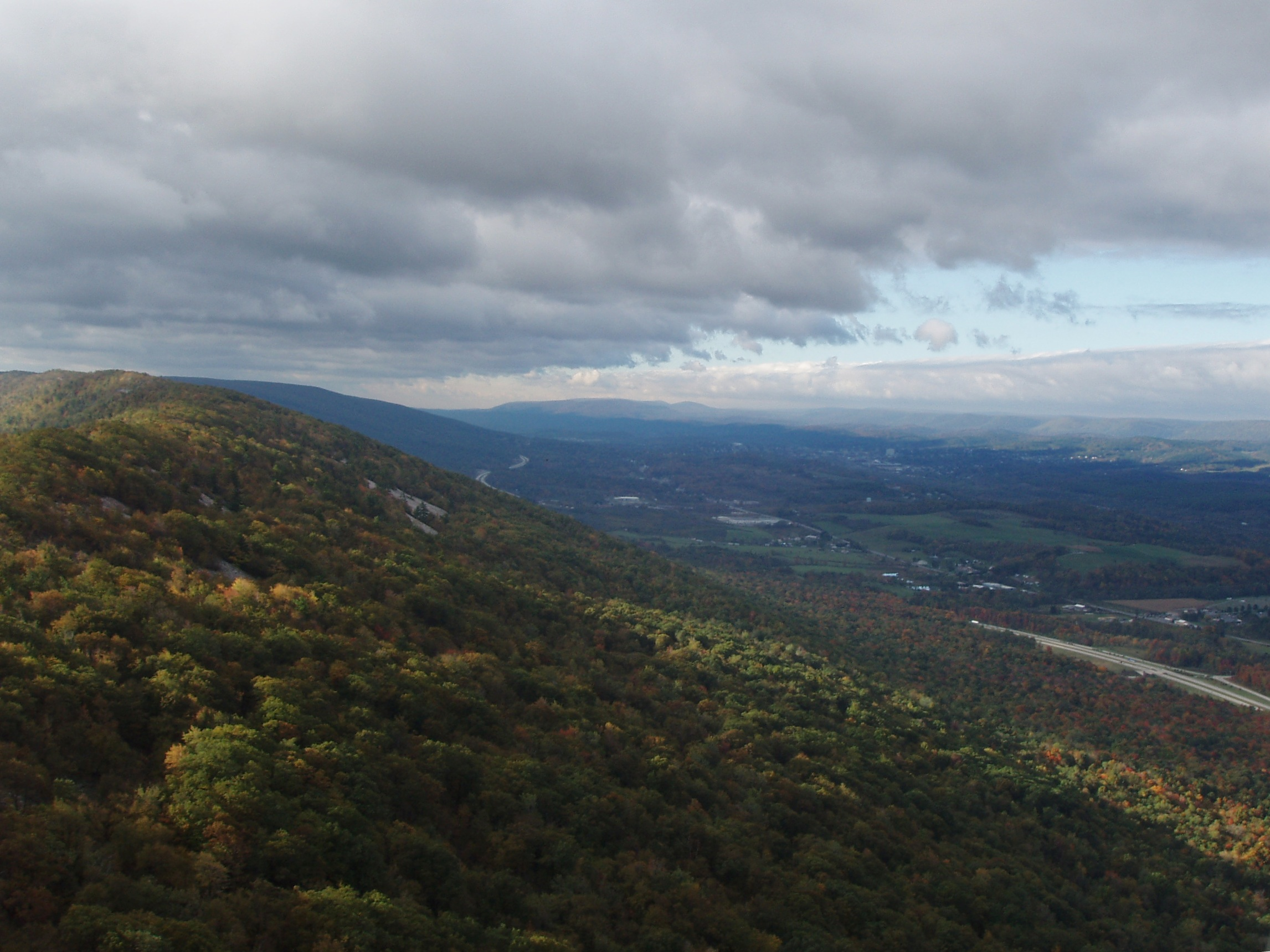 I took this picture. Brush Mountain| looking southwest toward Altoona I took this picture. Brush Mountain looking southwest toward Altoona